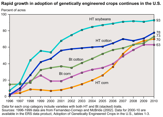 Adoption of Genetically Engineered Crops in the U.S. HT = herbicide tolerance. BT = insect resistance.